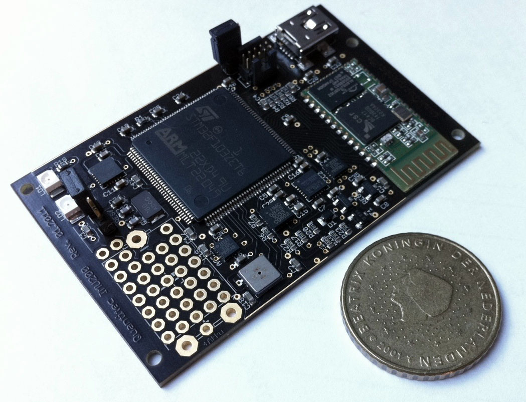 Low-cost redundant MEMS based Inertial-Navigation-System used in surgery Navigation systems from Quantitec